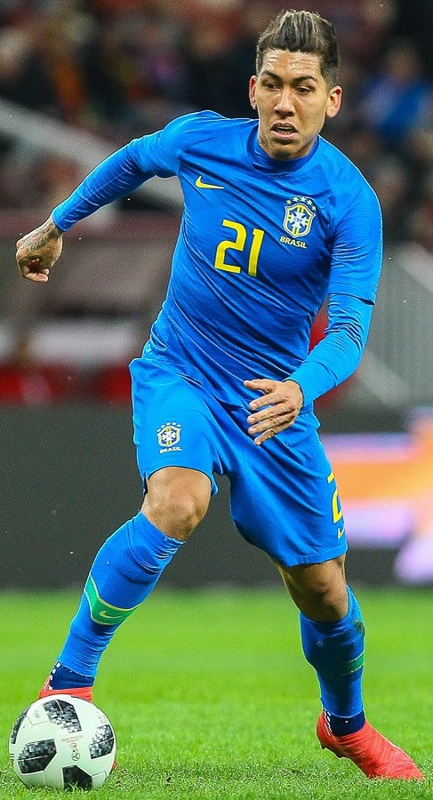 Aleksandr Golovin, Roberto Firmino